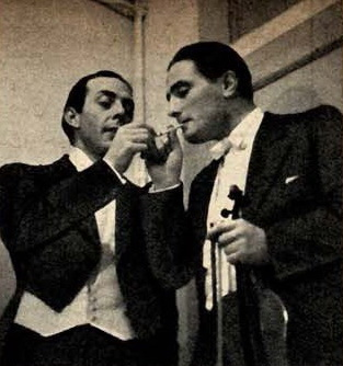 Italian conductor Ettore Gracis lights a cigarette to violinist Franco Gulli